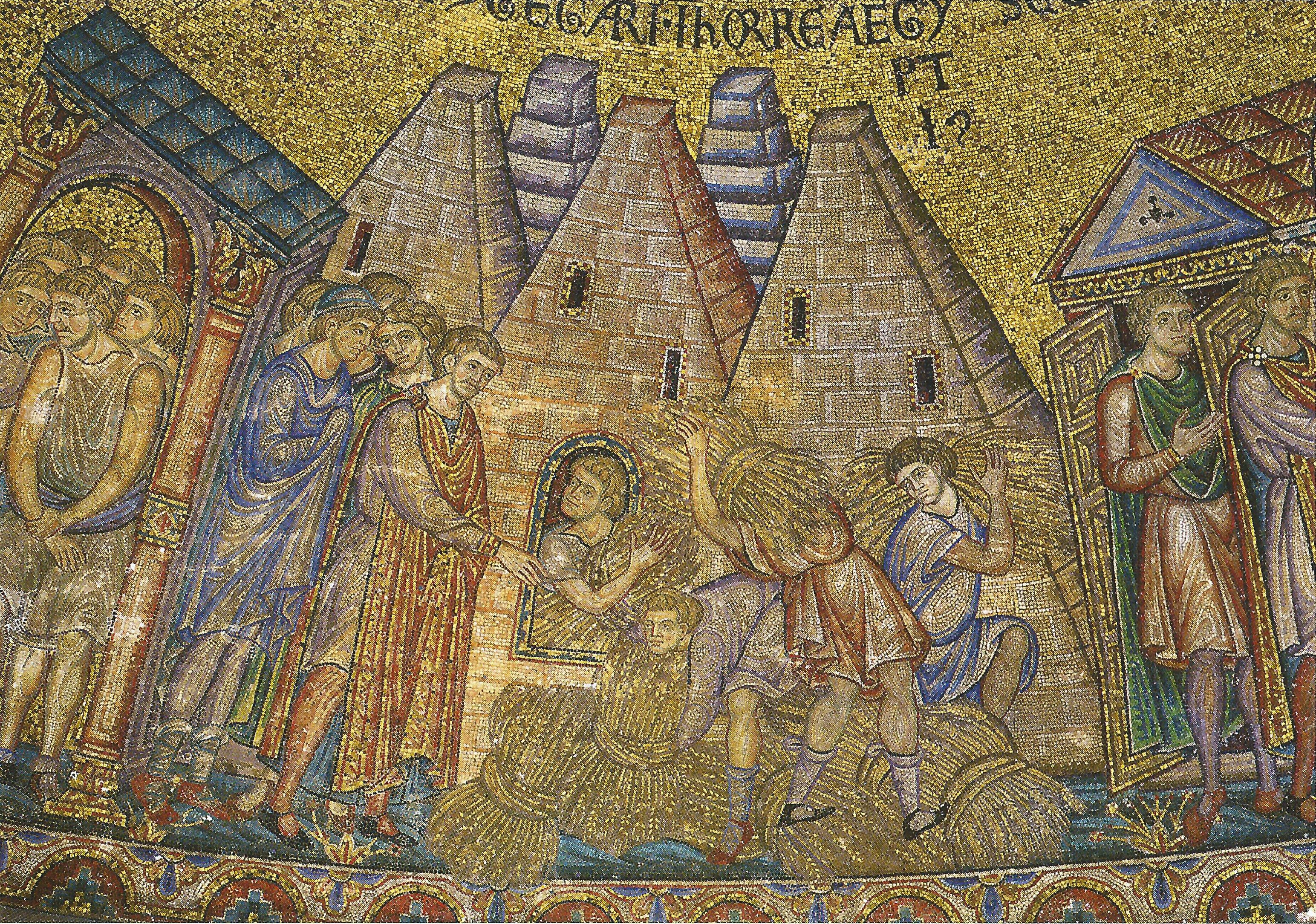 Detail of mosaic showing Joseph (the Patriarch) overseeing the gathering of grain in Egypt during the years of plenty (Genesis 41:47-8). Located in the third Joseph cupola in the north narthex of St Mark's Basilica, Venice.